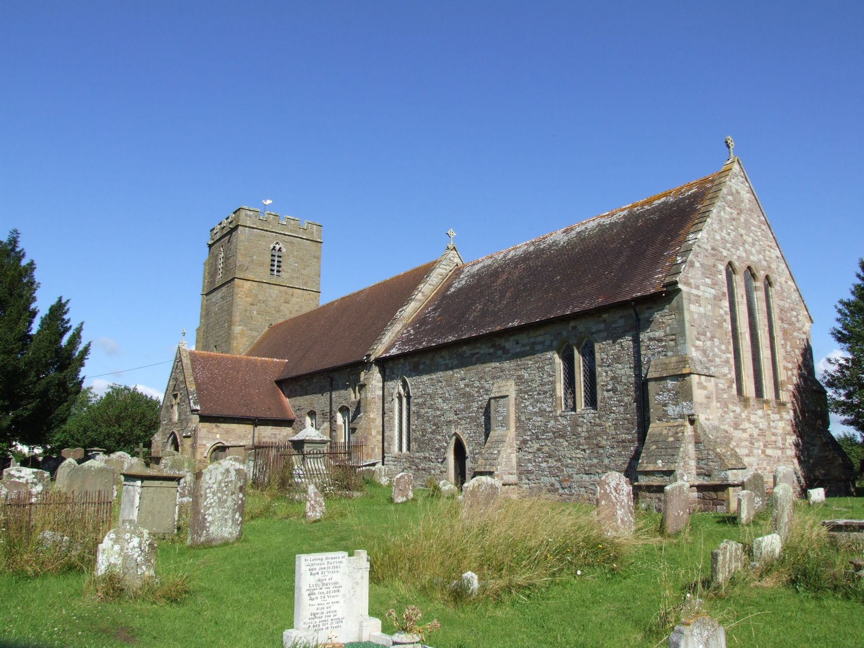 St Andrew's parish church, Awre, Gloucestershire, seen from the southeast